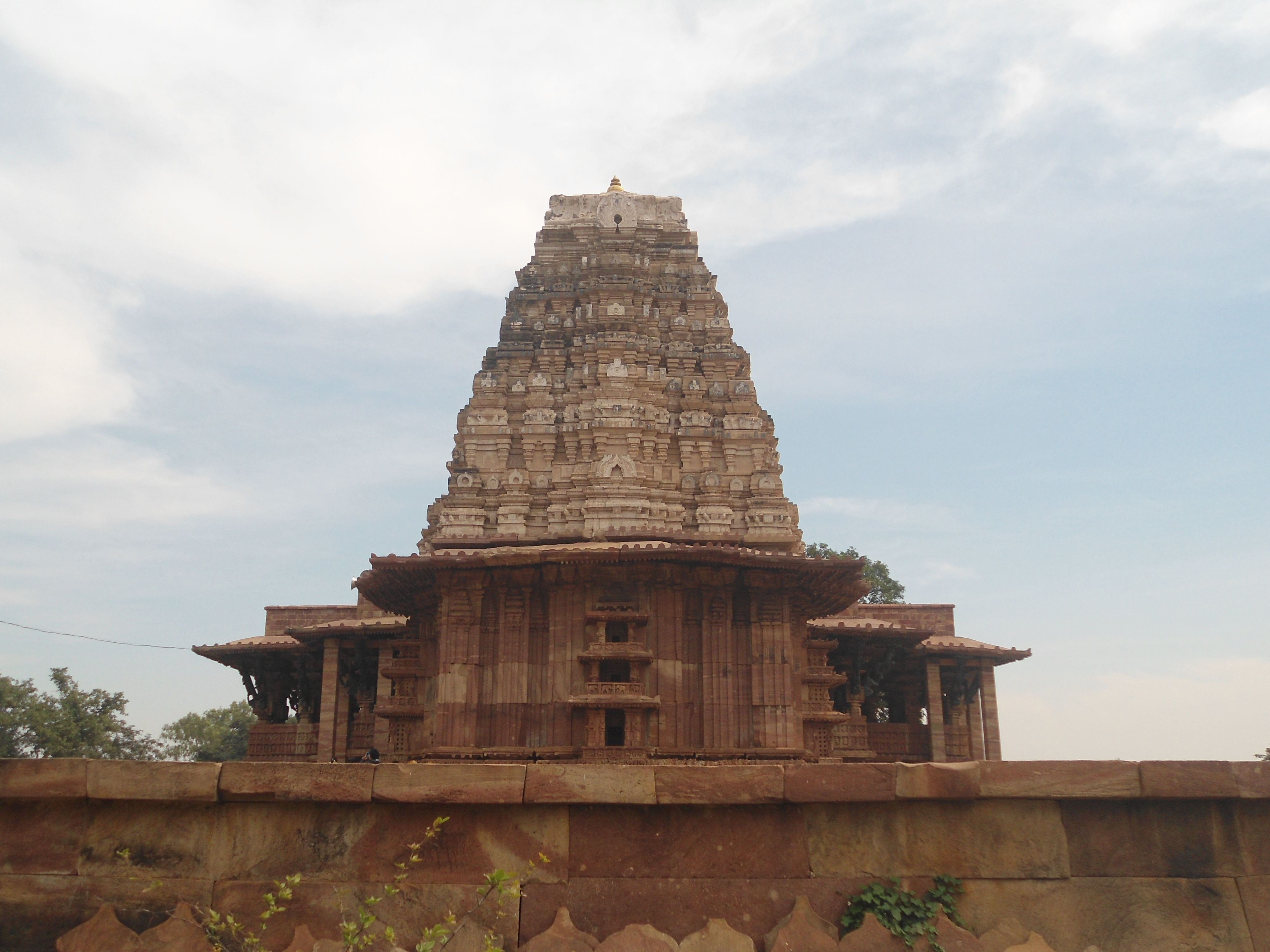 A view of Ramappa Temple, Palampet, Warangal district, Telangana